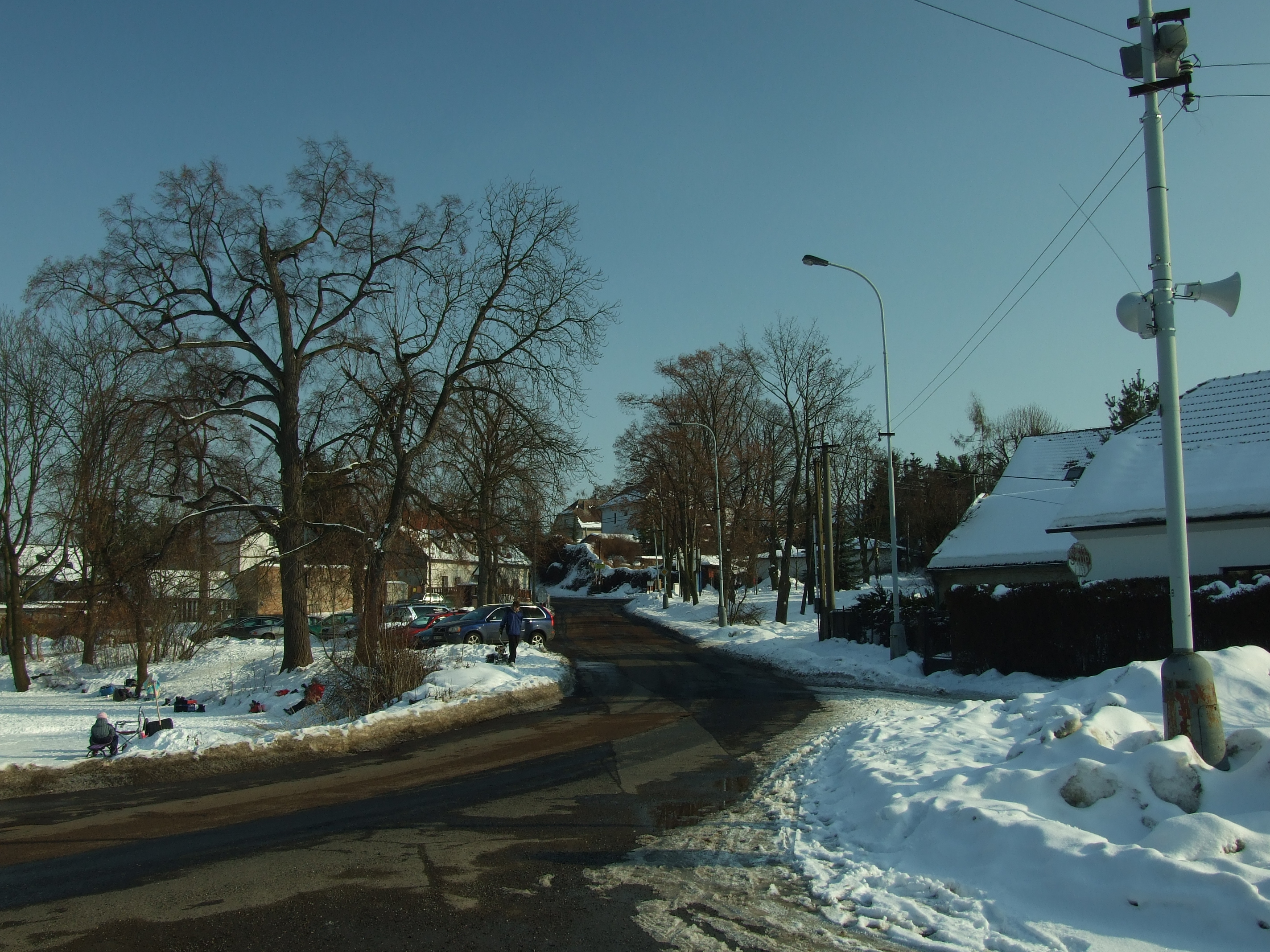 A road in Přemyšlení village in Zdiby, village near Prague, Central Bohemian Region, CZhelp